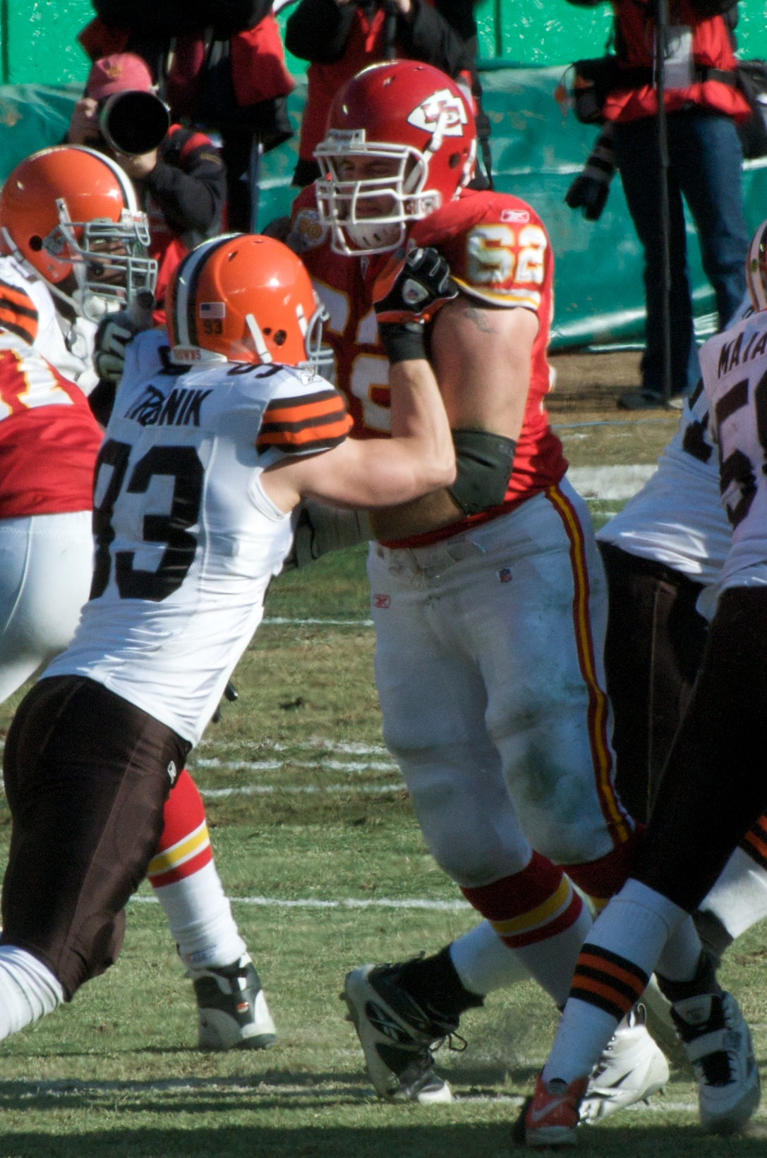 Andy Alleman (#62) blocking for the Kansas City Chiefs in a game against the Cleveland Browns at Arrowhead Stadium on December 20, 2009